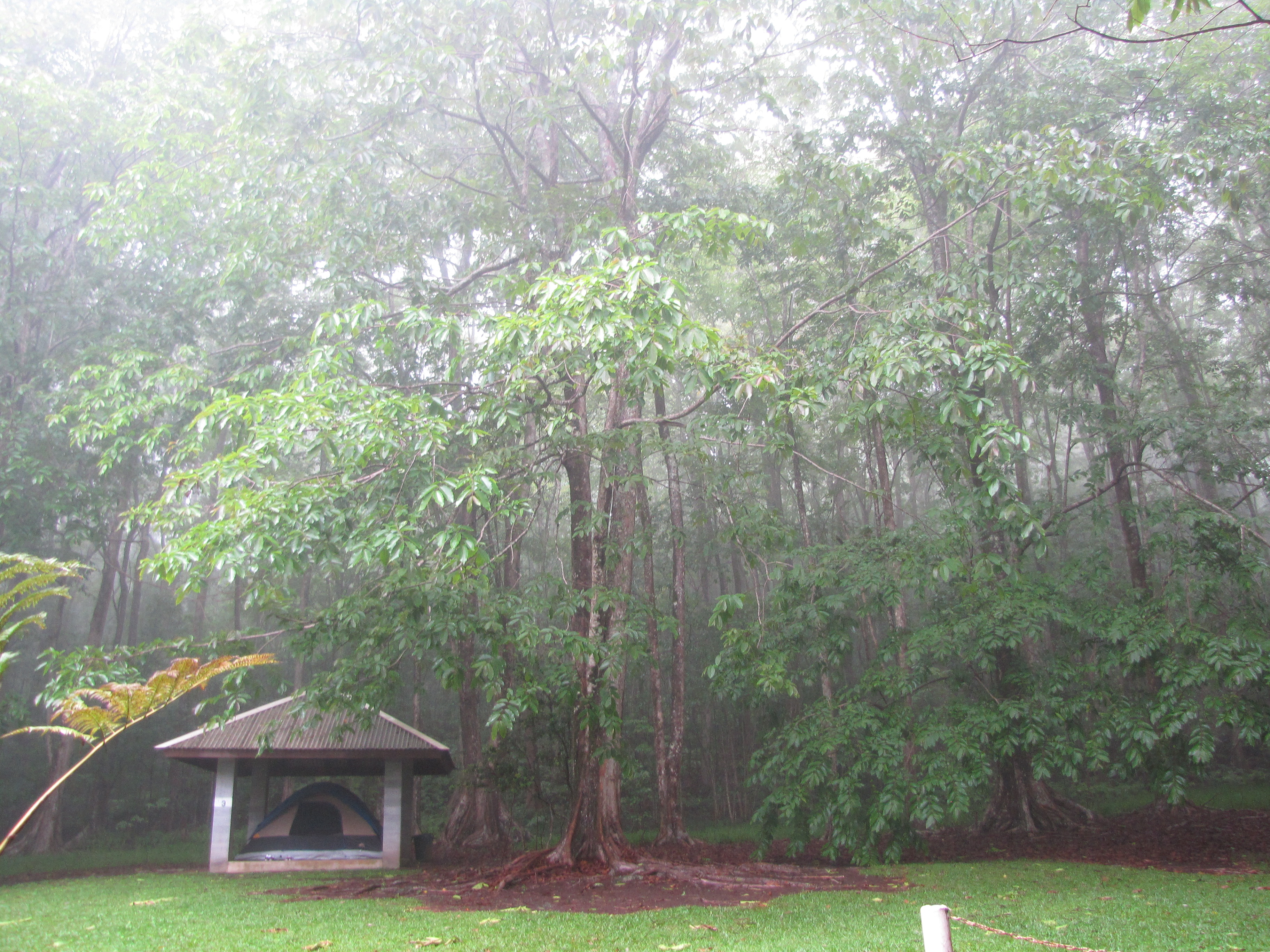 Terminalia myriocarpa (Jhalna) Habit and tent campers at Kalopa State Park, Hawaii, Hawaii. July 18, 2012 #120718-9286 - Image Use Policy